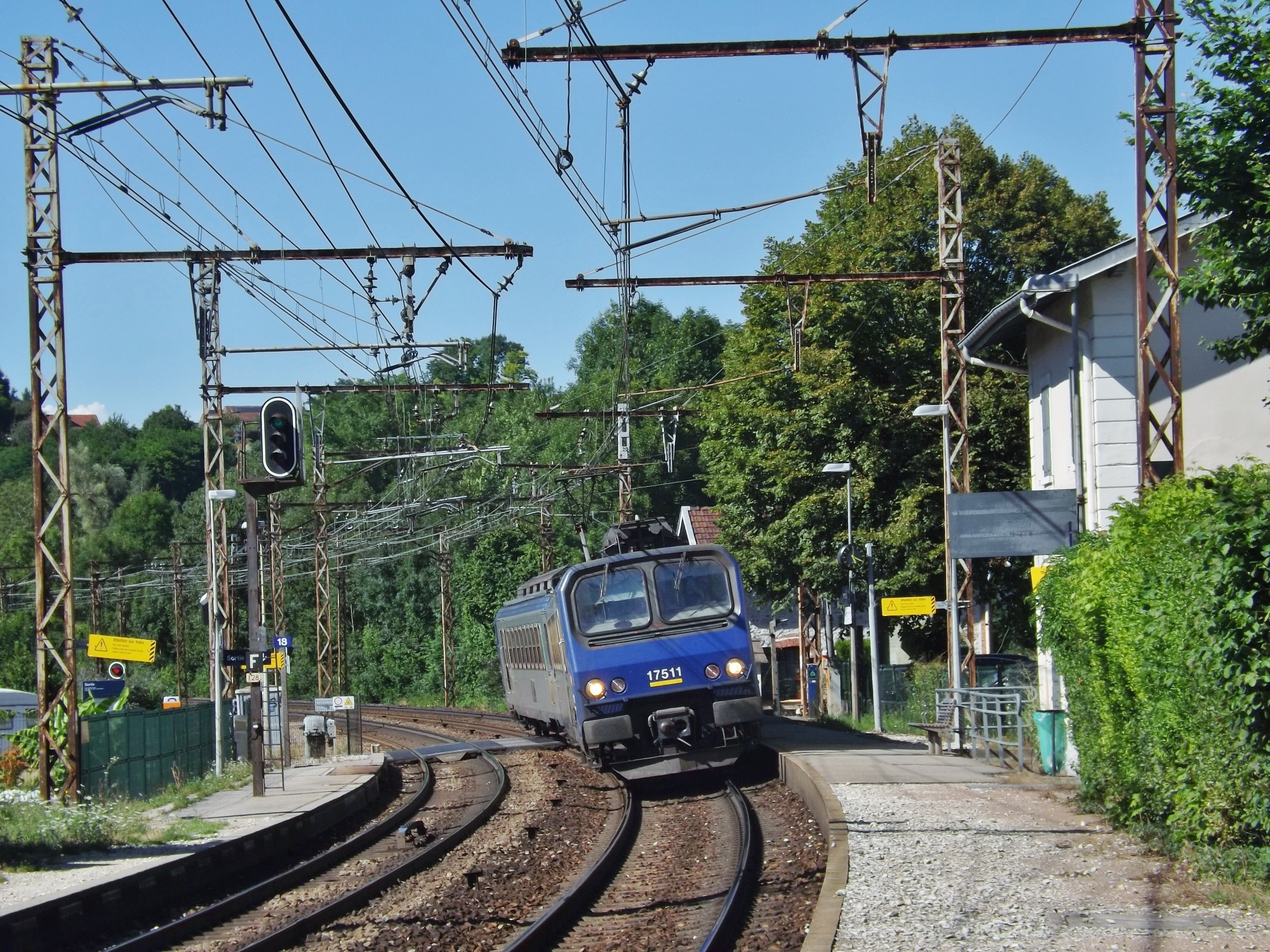 Sight of French regional train n° 883669 coming from Ambérieu and bound for Chambéry, stopping at Viviers-du-Lac station, last stop before its terminus, in Savoie.